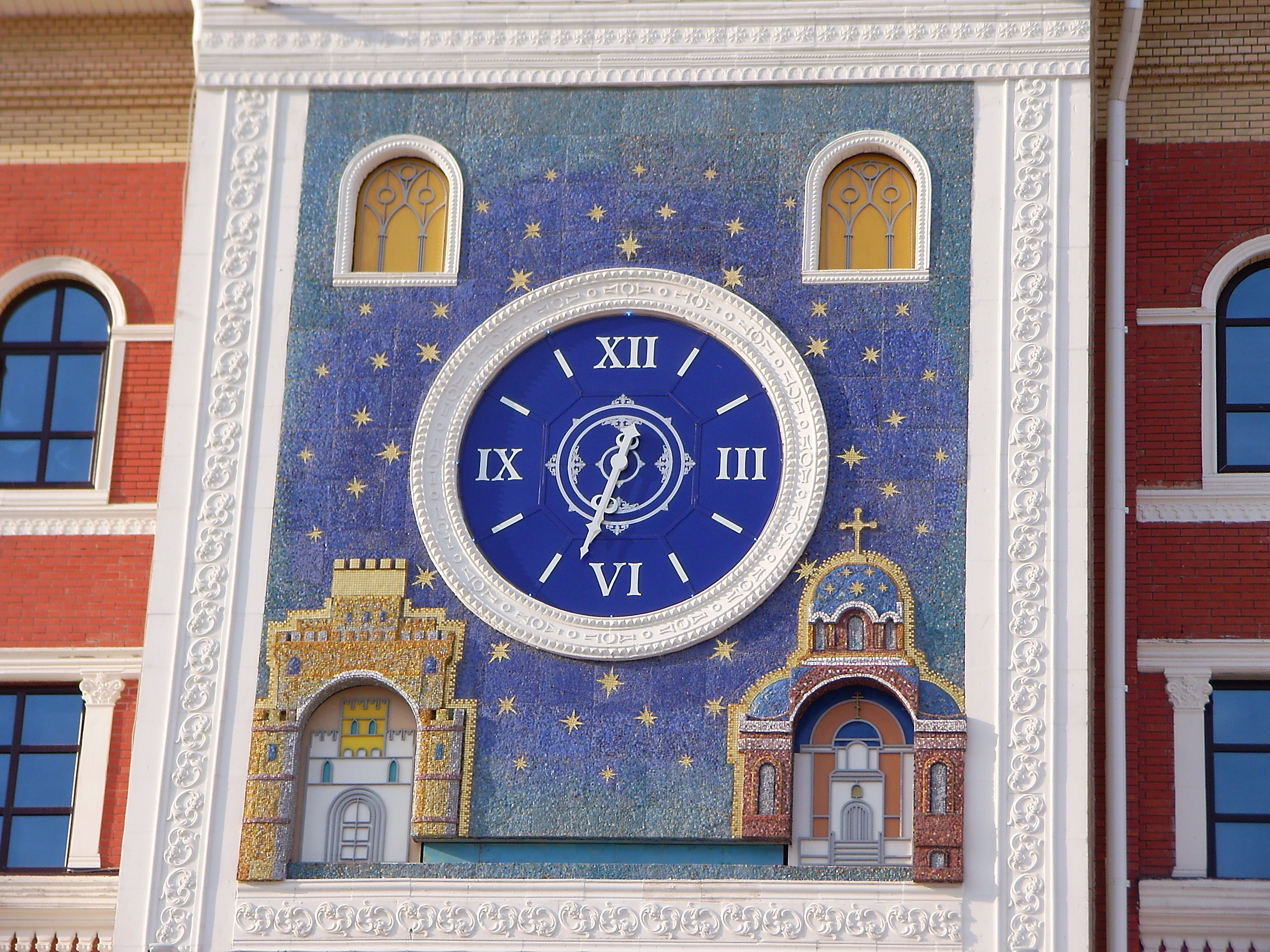 Hours on a building of national art gallery